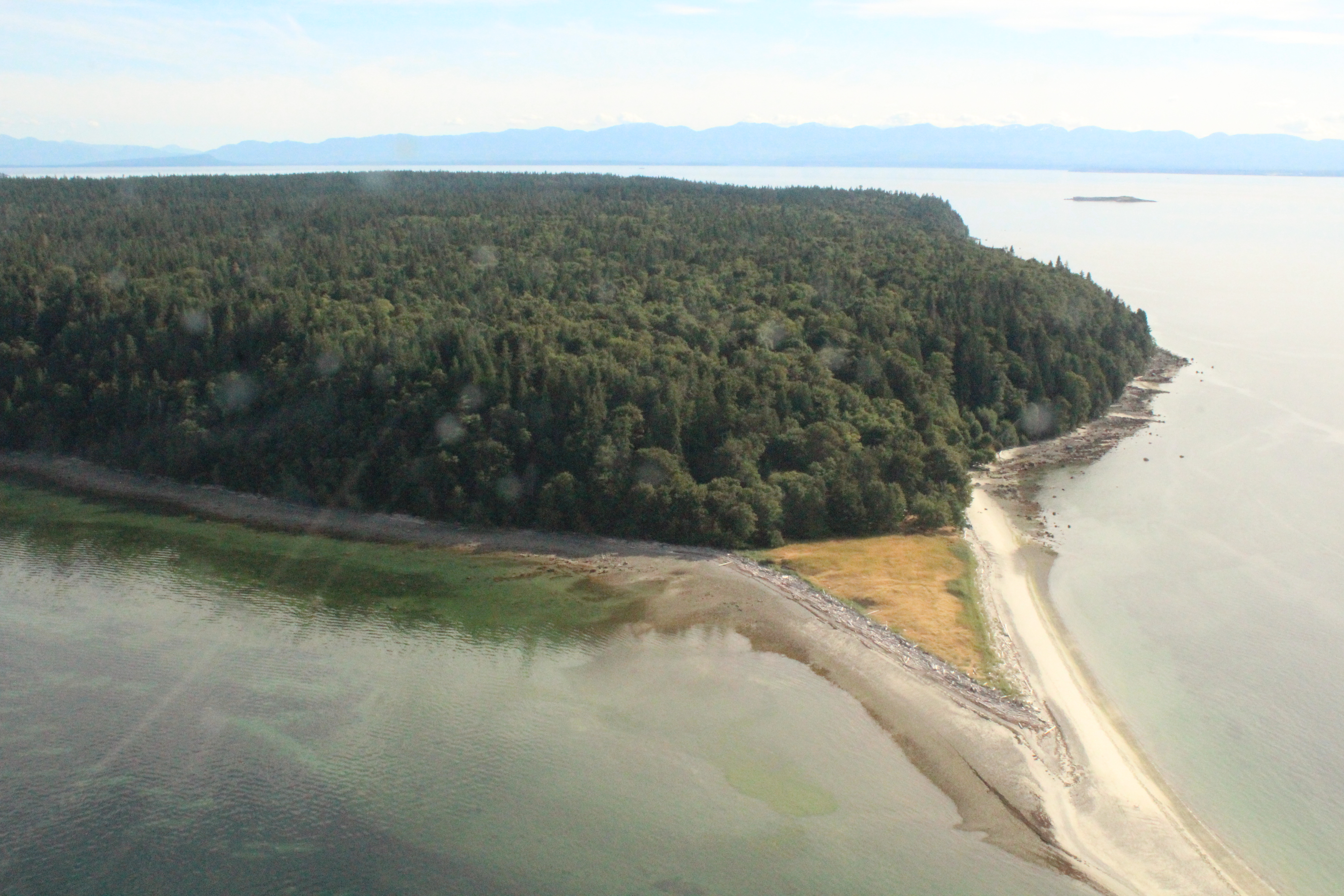 Harwood Island from a seaplane